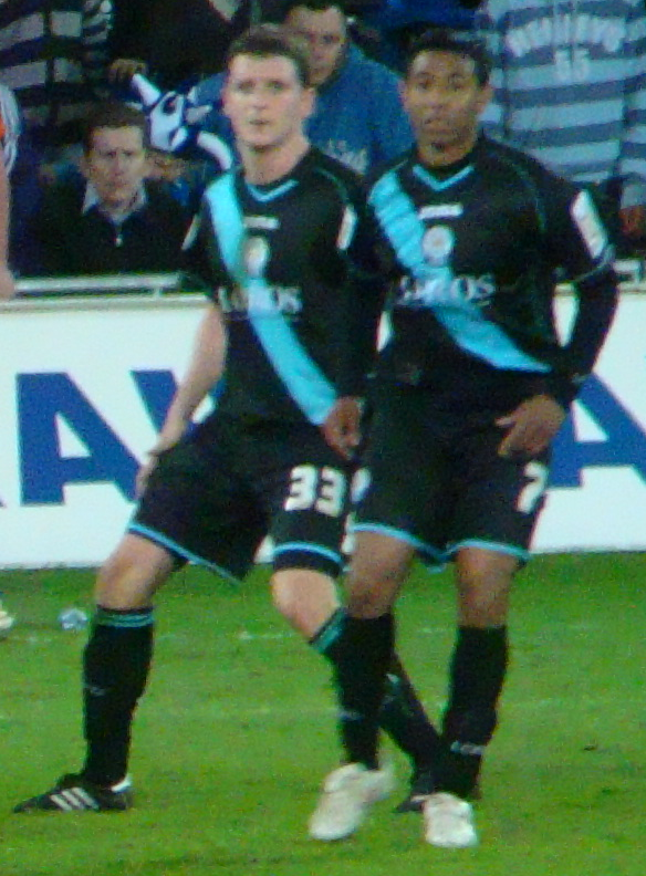 12/05/10 Cardiff City V Leicester City, Championship Playoff 2nd Leg, Cardiff City Stadium, Cardiff, Wales